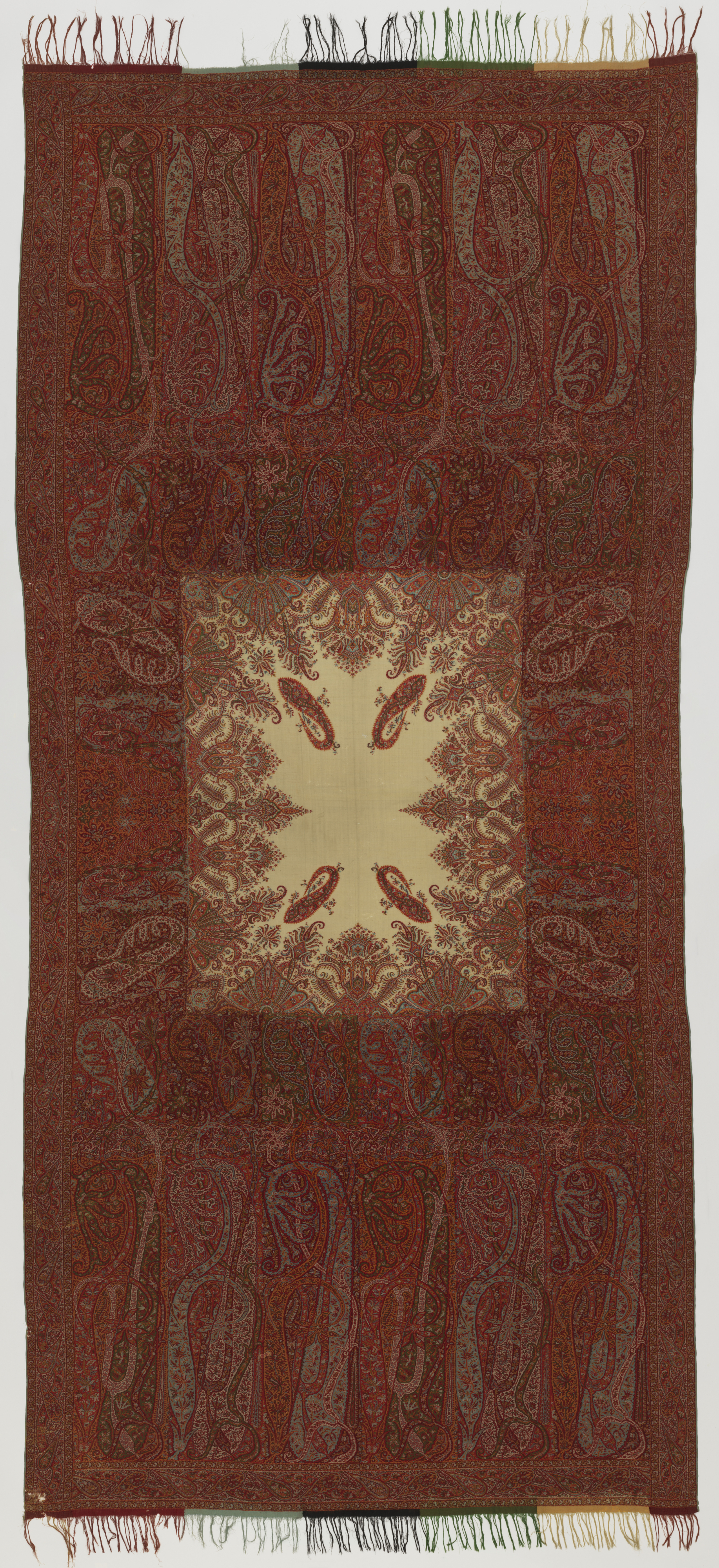 Paisley shawl with deep borders in shades of red, orange, blue, and white. Shawl ends have a row of tall paisleys with an inner border of small paisley motifs. White center field has small paisleys, scrolling bands and floral clusters.